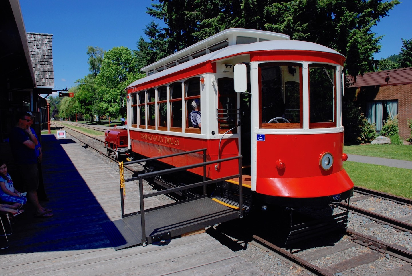 Issaquah Valley Trolley Brill car 519 laying over at the Issaquah Depot terminus, with a boarding ramp in place to bridge the gap between the station platform and the car's first step. Car 519 is ex-Lisbon No. 519 and was built in kit form by the J. G. Brill Company (of Philadelphia) and assembled in Portugal in 1925.